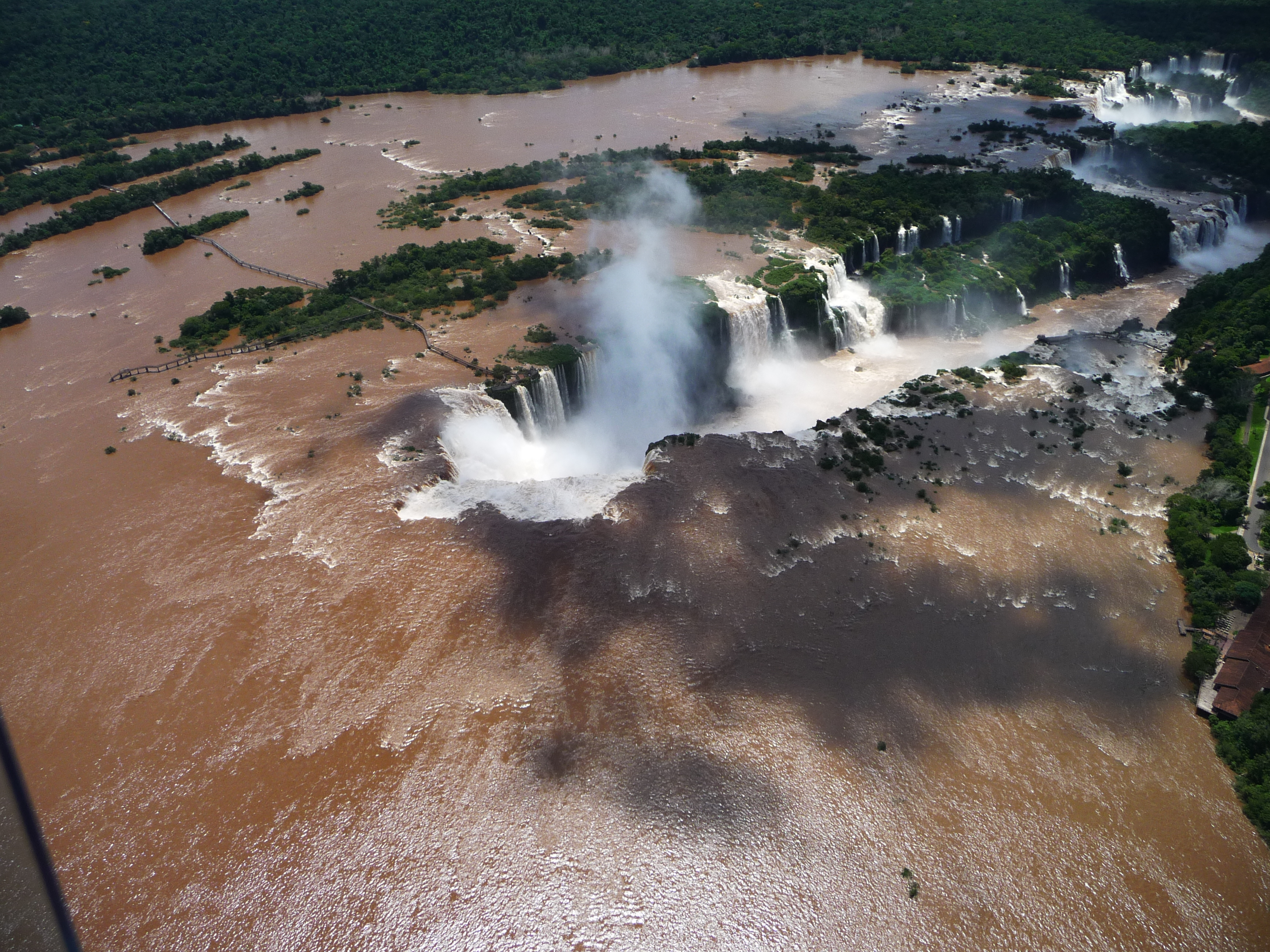 Iguazu Falls, in Misiones (Argentina).